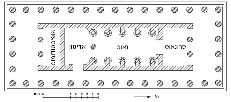 Floor plan of Temple of Apollo Epicurius at Bassae.